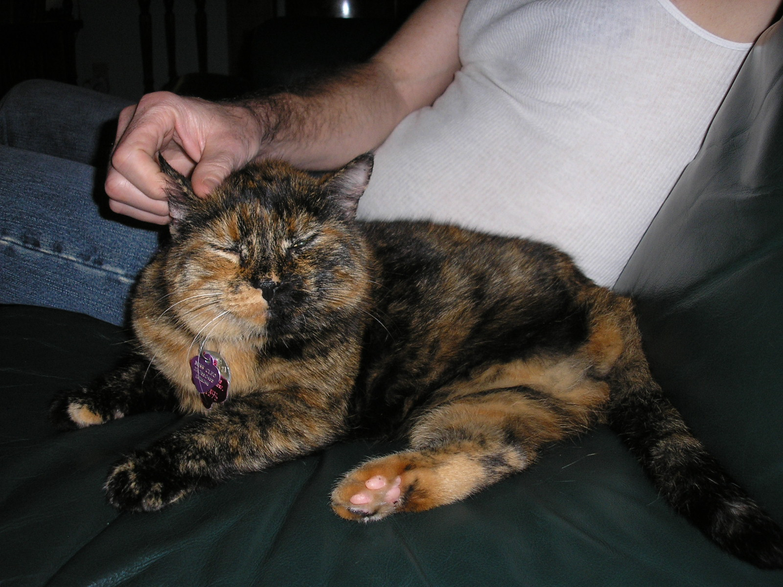 Miss Cleo, of Dallas, TX is a happy and healthy tortoise-mix domesticated cat with only one hind leg. After surgery and recovery, pets that have had limbs amputated can live extended, healthy lives. Cats genetically heal faster than humans, and adjust to their new mobility quickly.